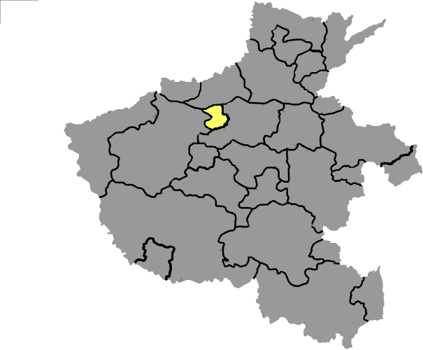 Location of Gongyi county-level city in Henan province, China